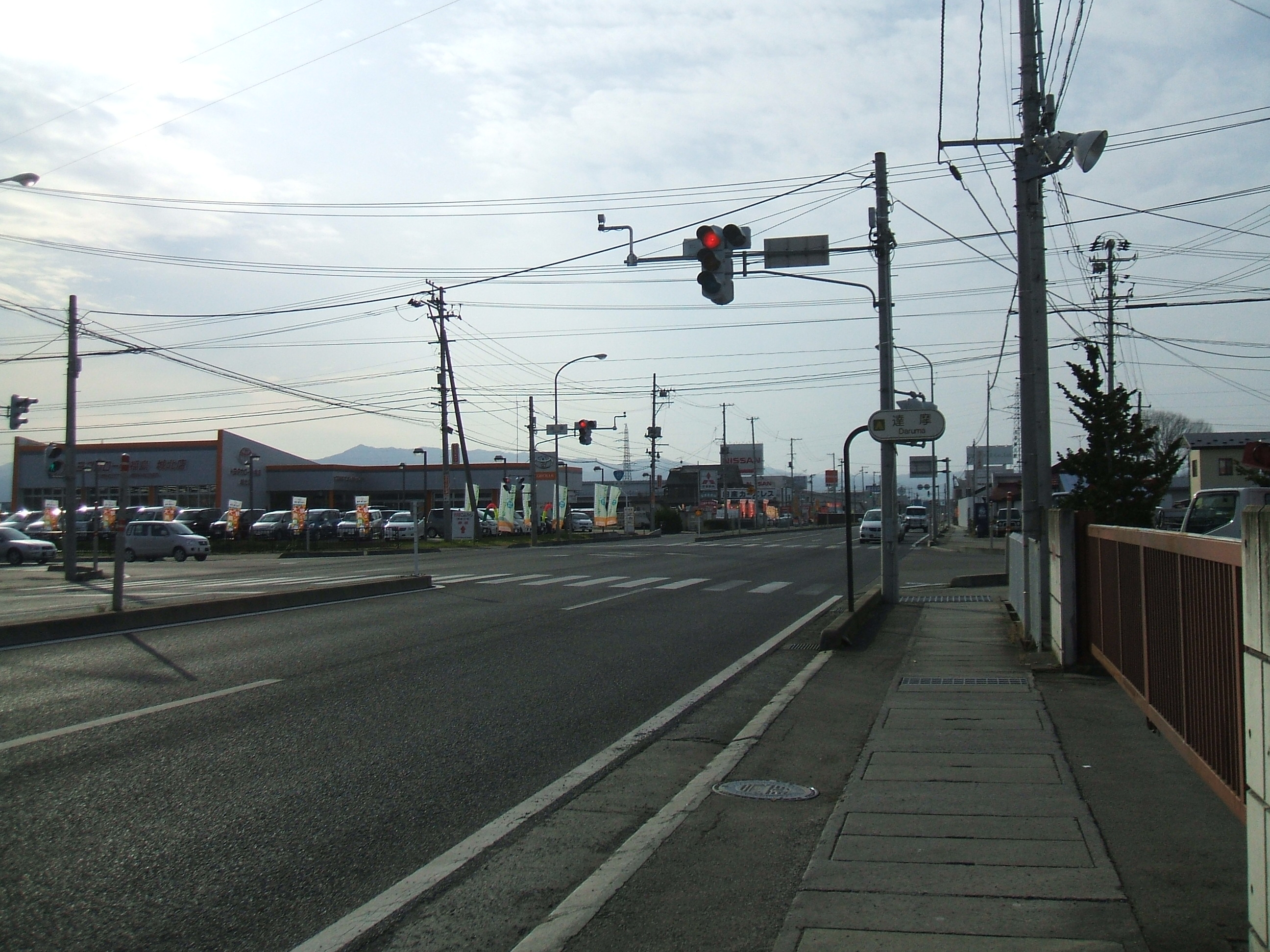 A landscape of Japanese National Road "Route 49" at Machikita-town, Aizuwakamatsu, Fukushima.